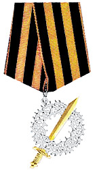 Orden Za Sibirskii pokhod